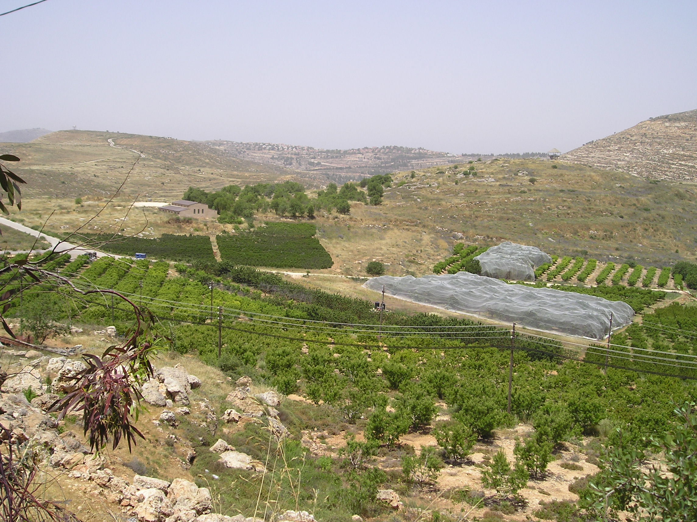 Tel Shilo (Khirbet Seilun)